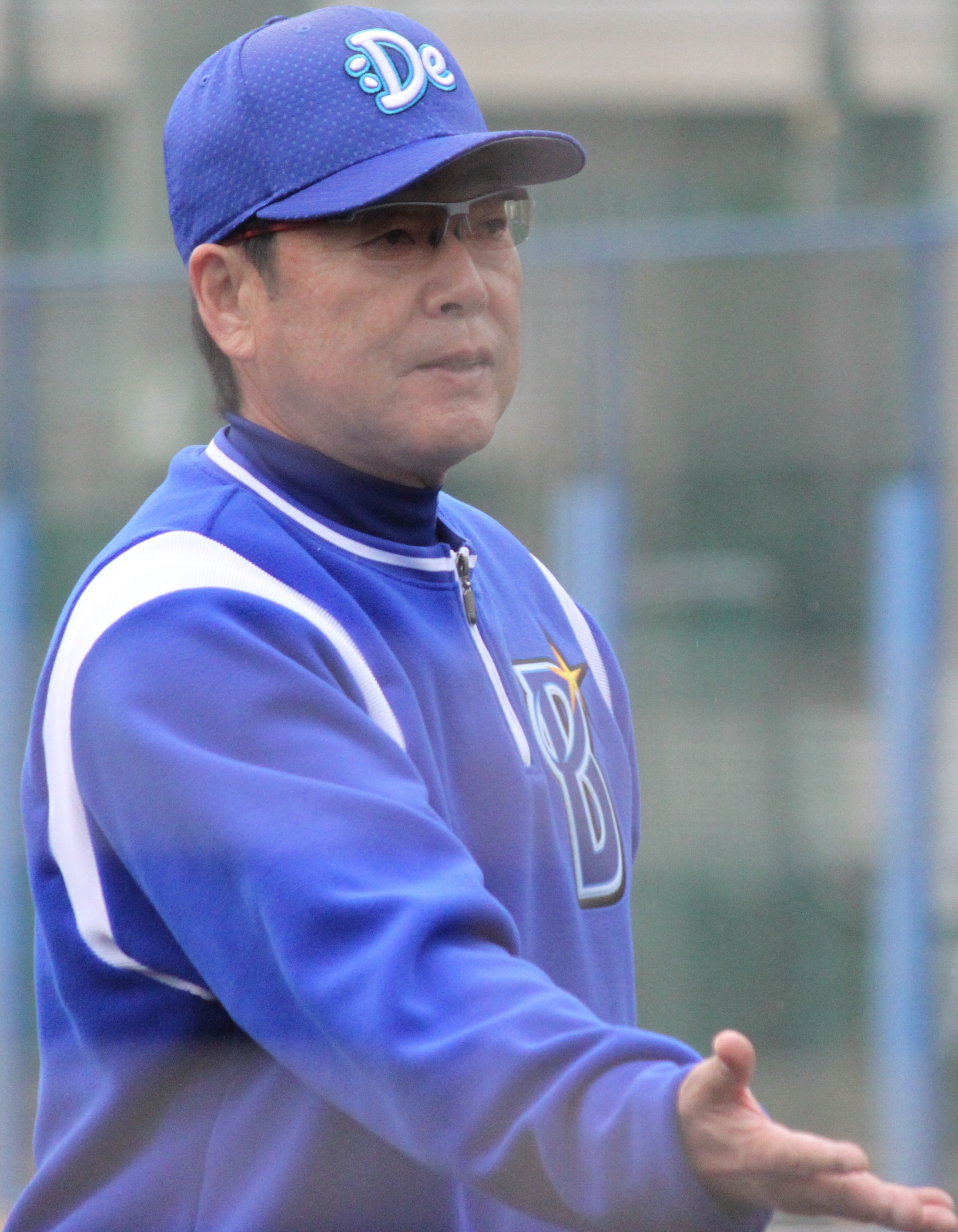 Misao Takaura, coach of the Yokohama DeNA BayStars, at Yokohama DeNA BayStars Baseball Integrated training field.